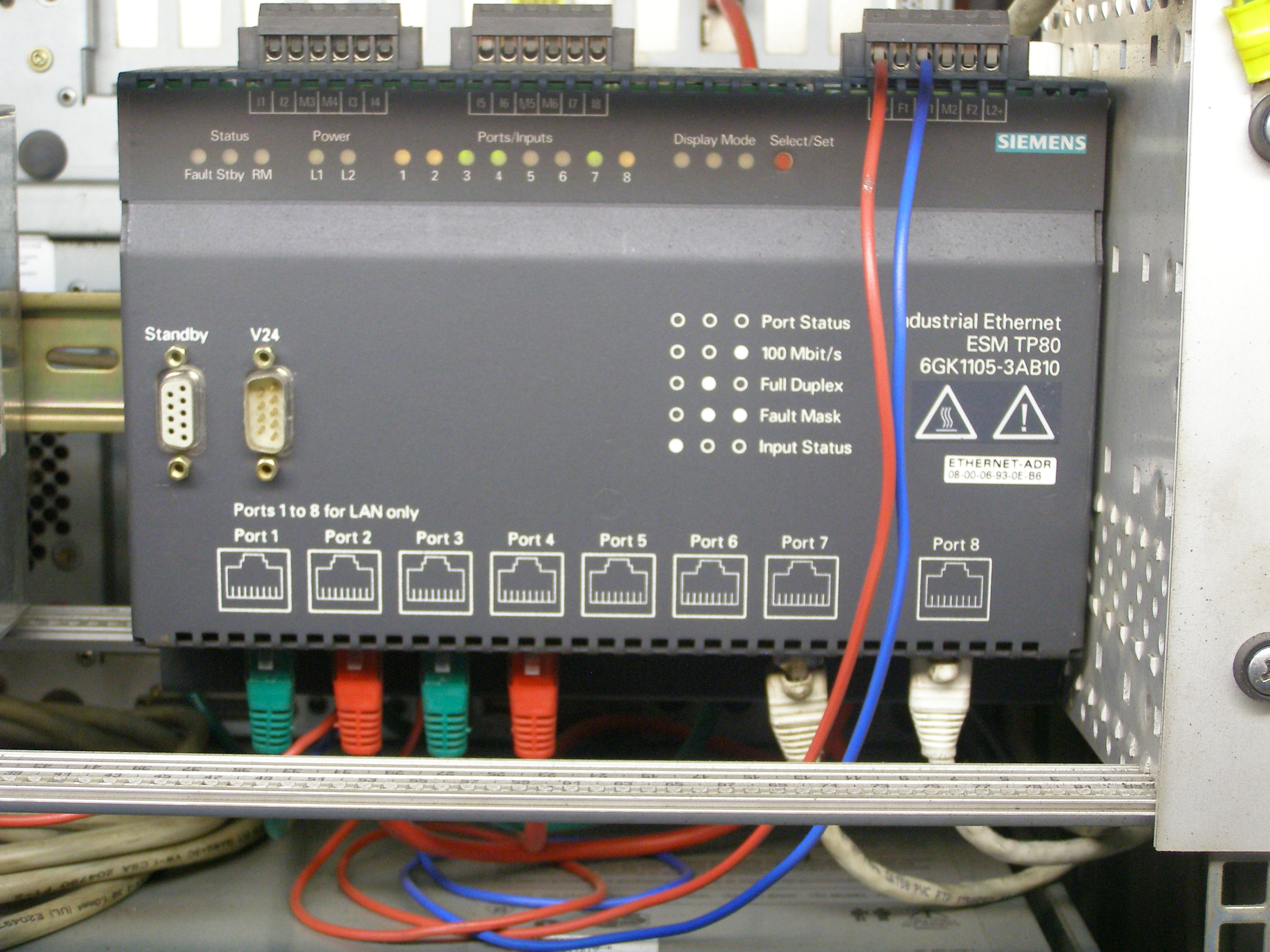 Siemens ESM TP80 (6GK1105-3AB10)— 8 RJ45-ports Industrial Ethernet switch.